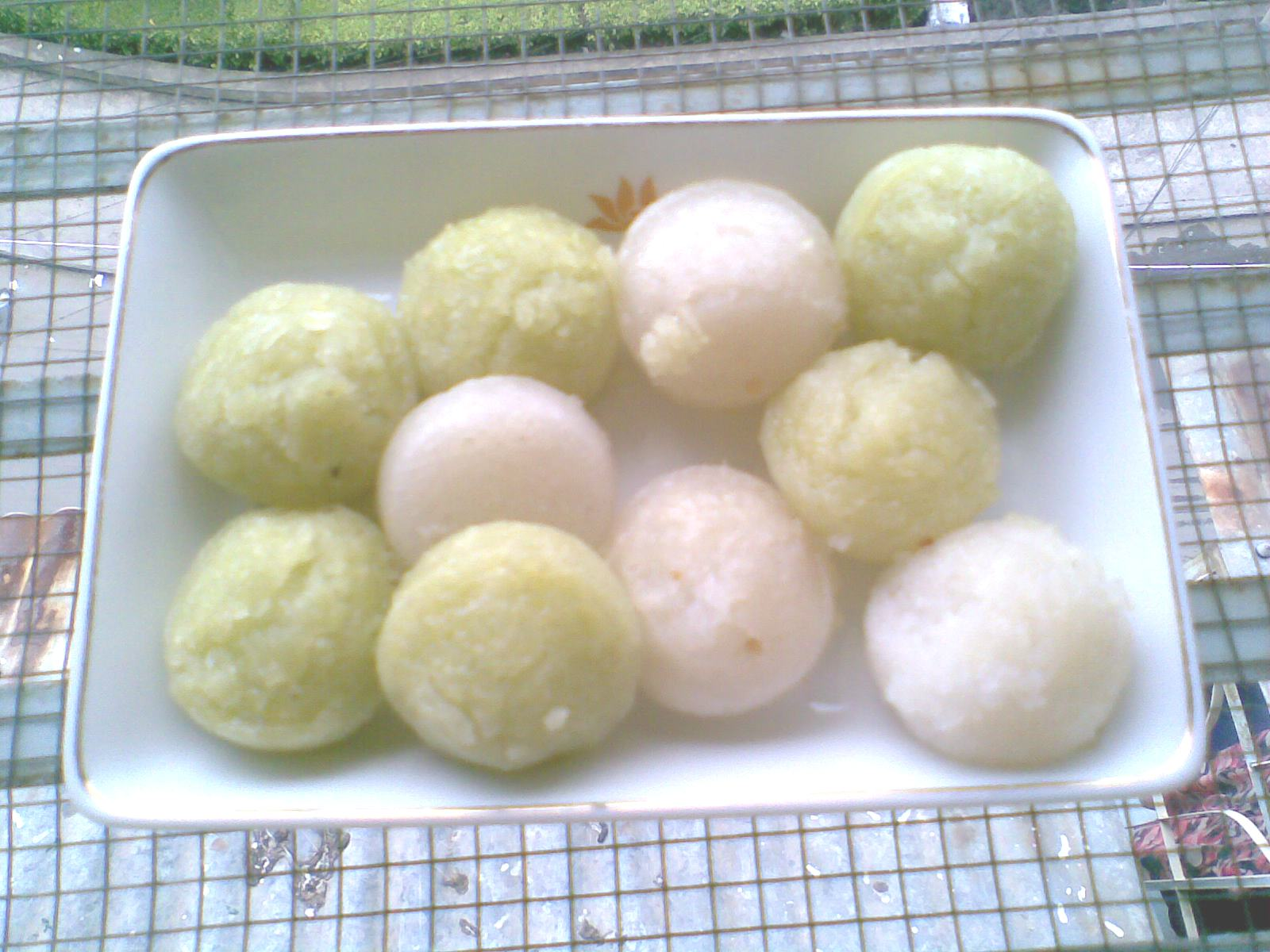 some small "bánh bò hấp"